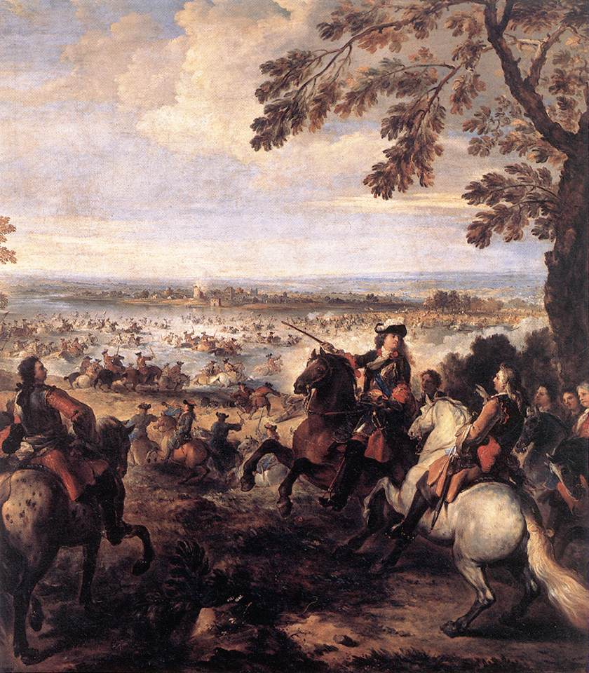 Joseph Parrocel (french, 1646-1704): Crossing of the Rhine by French Troops in 1672 (1699), France, Paris, Musée du Louvre (Room 34).